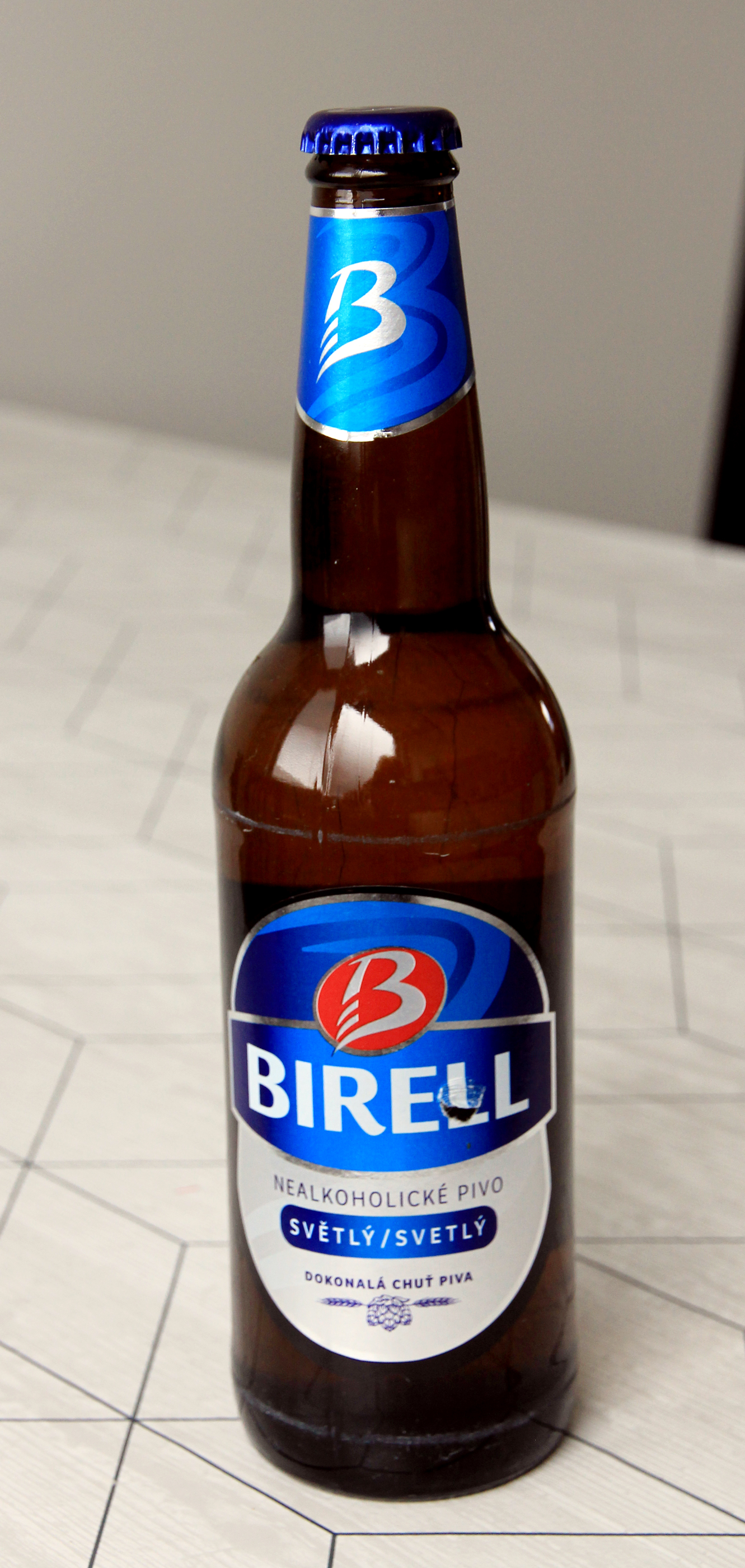 Bottle of Czech nonalcoholic beer Birell from brewery Pivovar Radegast in small Moravian town Nošovice, Czech Republic